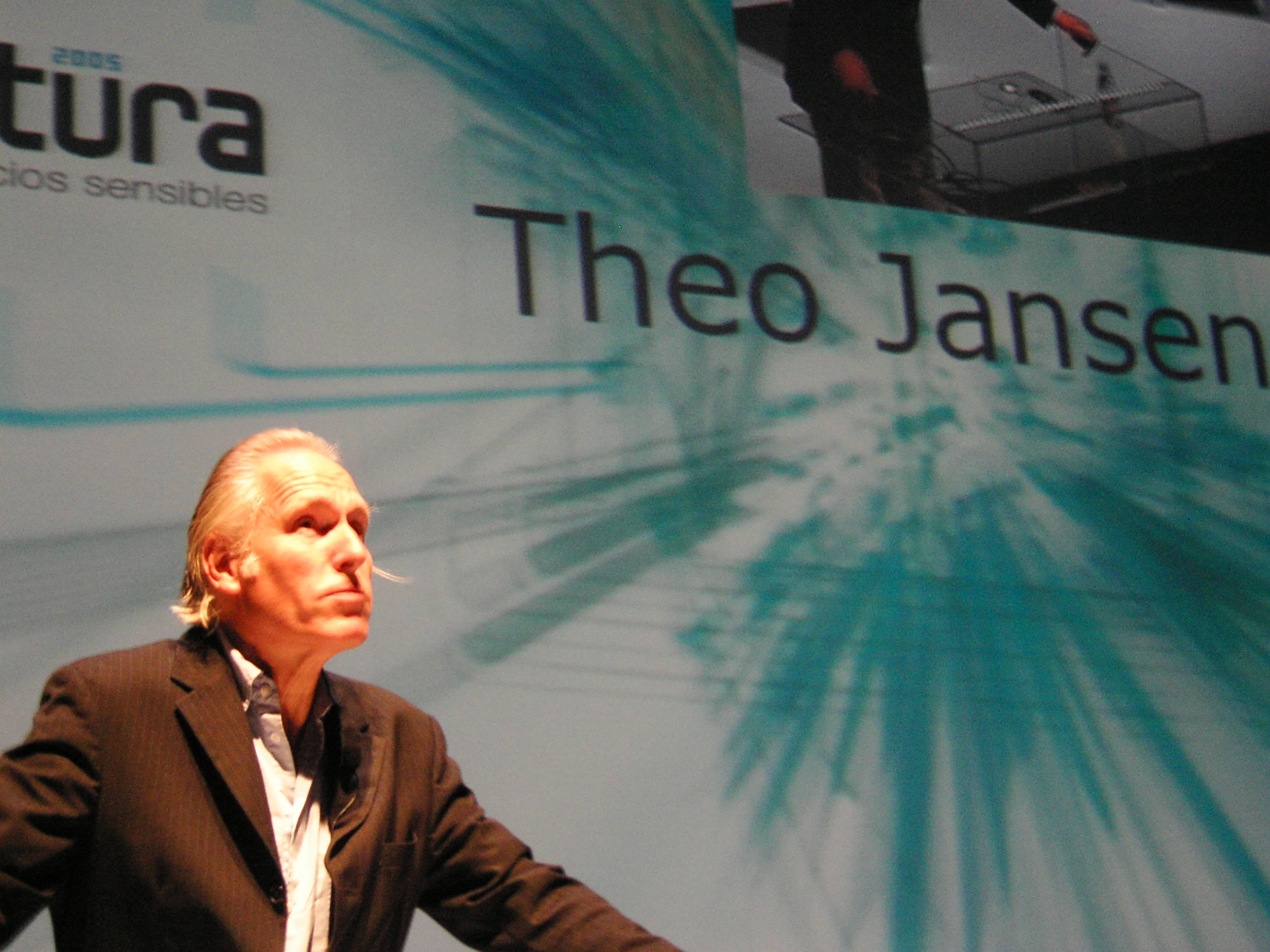 Theo Jansen at Art Futura, Barcelona, October 2005. The back row gets Theo's attention.